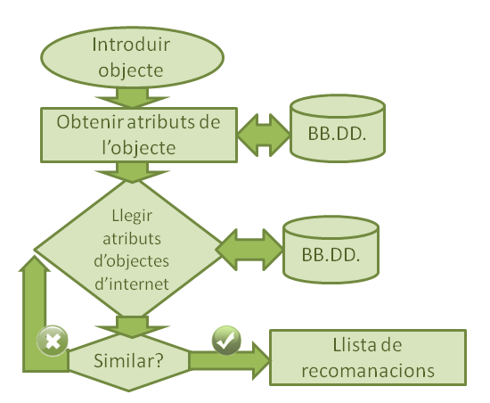 algorithm to content-based approach